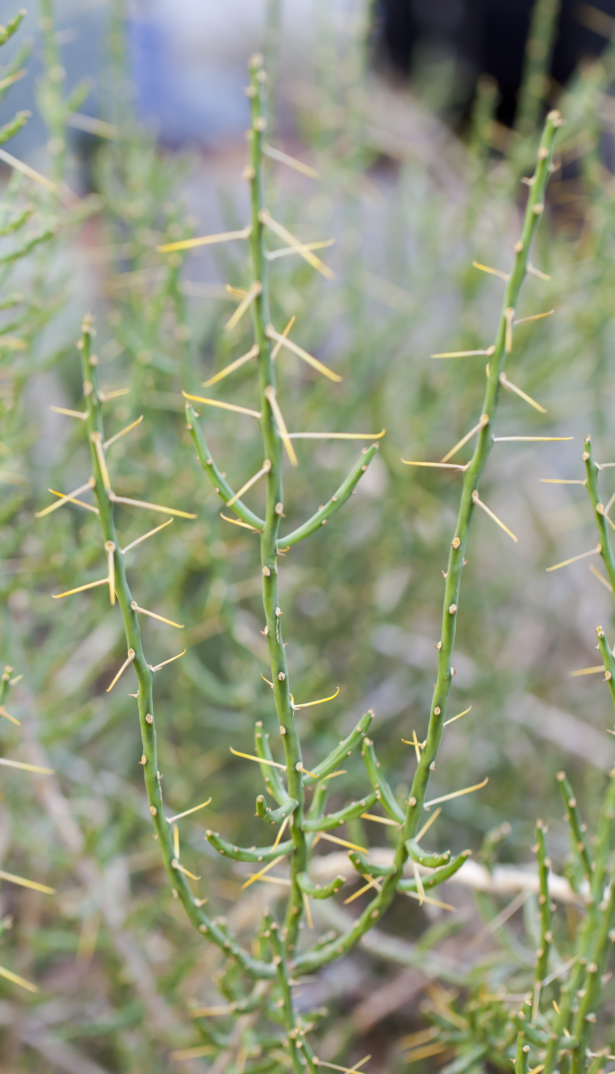 Cylindropuntia leptocaulis, Botanic Conservatory, Fort Wayne, USA